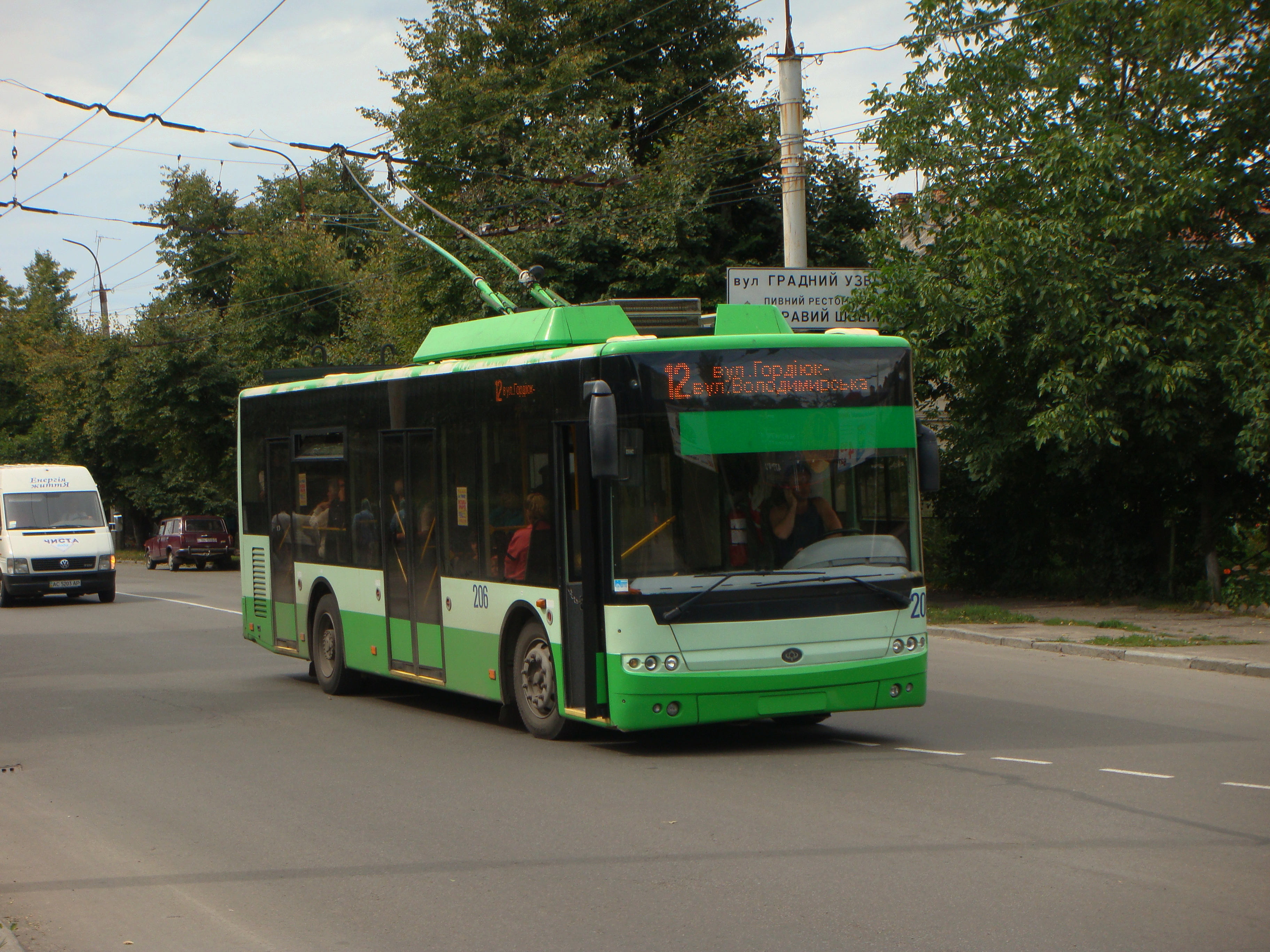 Bohdan T501.10 trolley in Lutsk, root12. Place unknown.